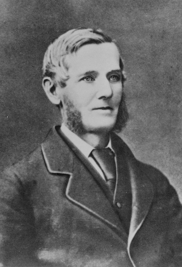 Photograph of George Marsden Waterhouse, Premier of South Australia and Premier of New Zealand.